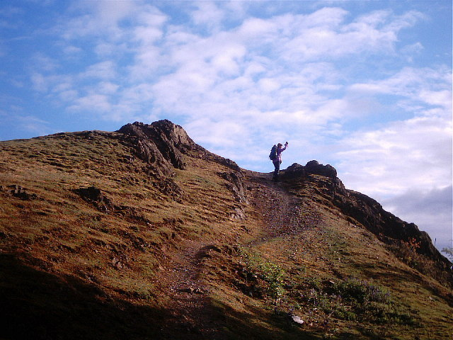 Ragged Stone Hill. This was taken on a wonderful early morning on a end to end walk of the Malvern ridge.